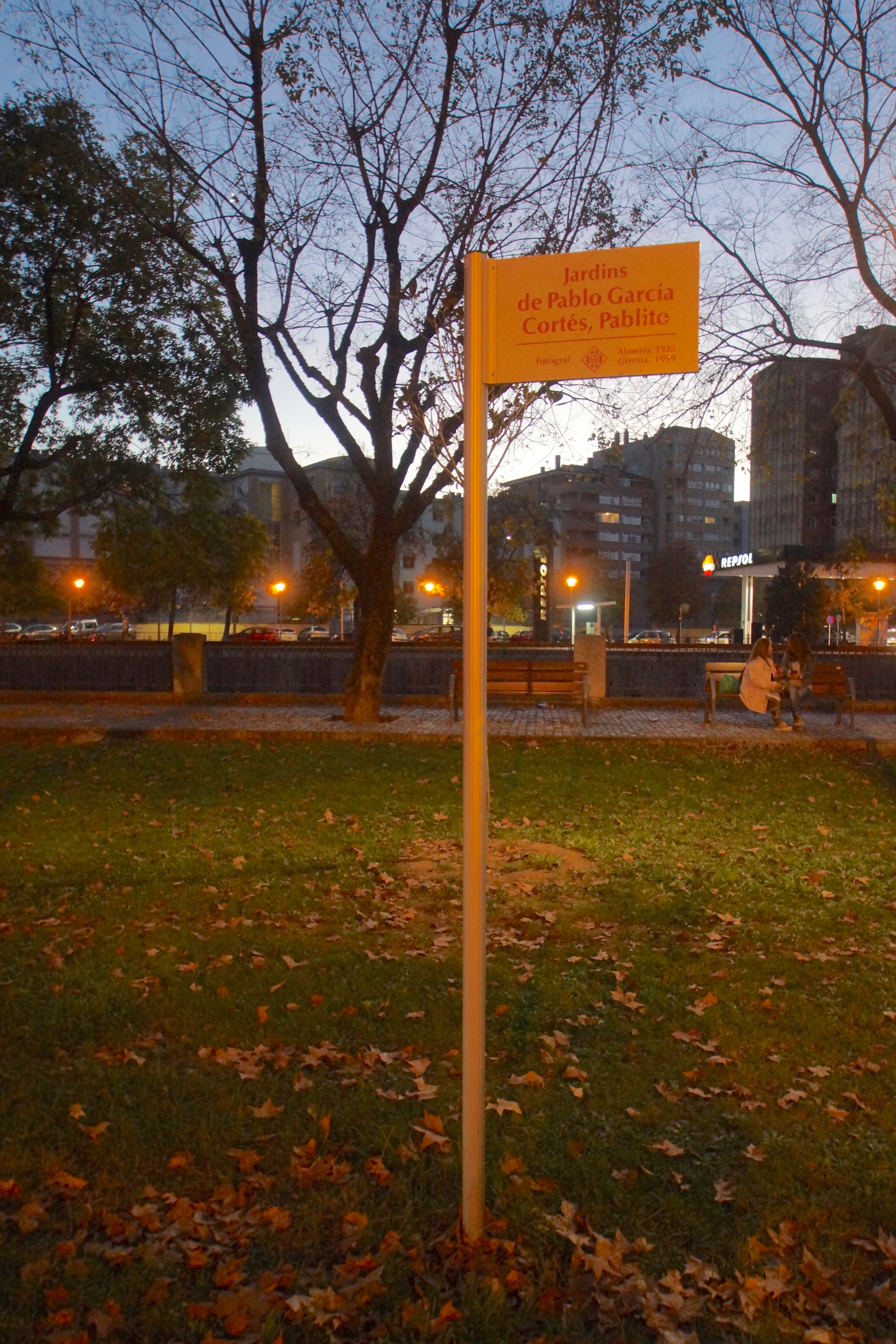 Girona (Carrer del Carme), Catalonia: Sign at the Pablo García Cortés Park